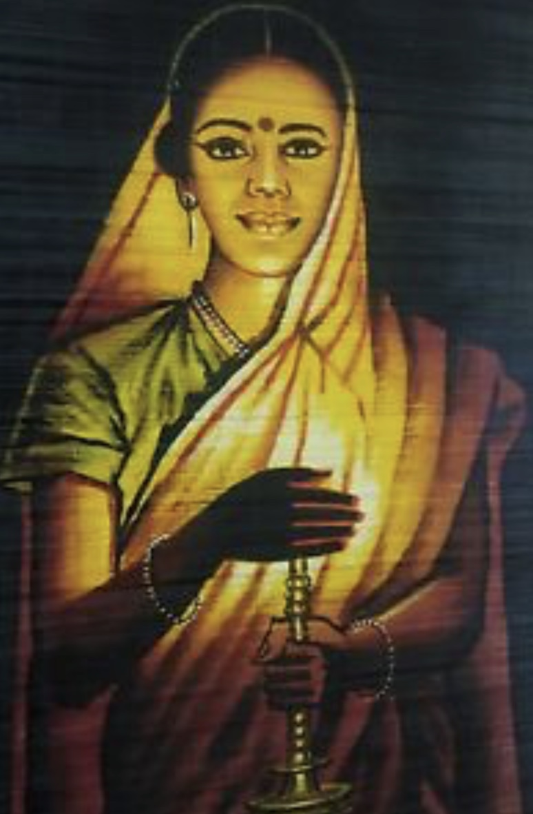 Hanging portrait of lad holding vilakku covering flame